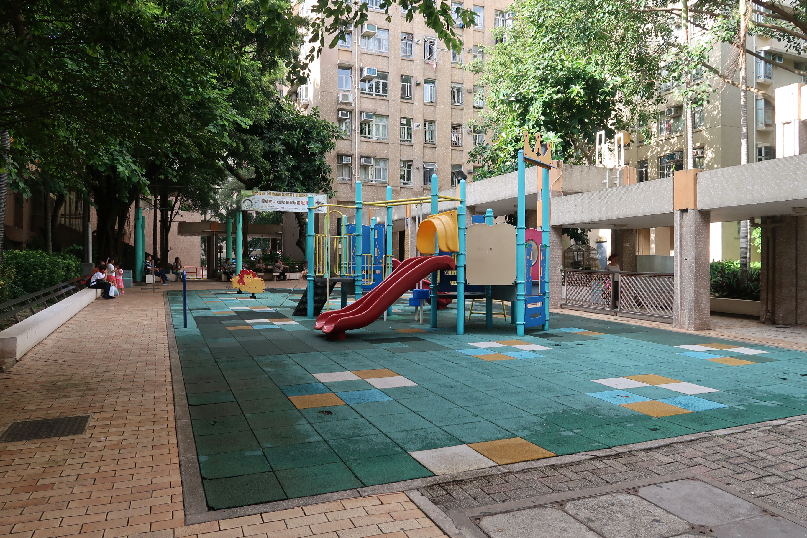 Lung Poon Court Children Play Area